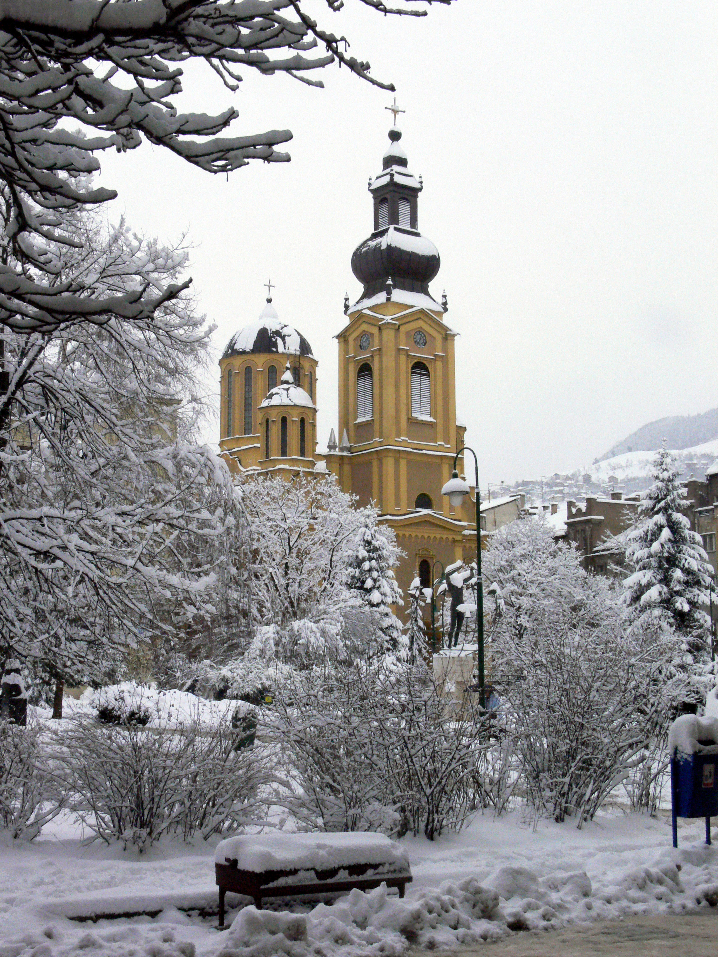 The serbian orthodox church in Sarajevo.